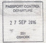 South Africa exit stamp, issued in Oshoek